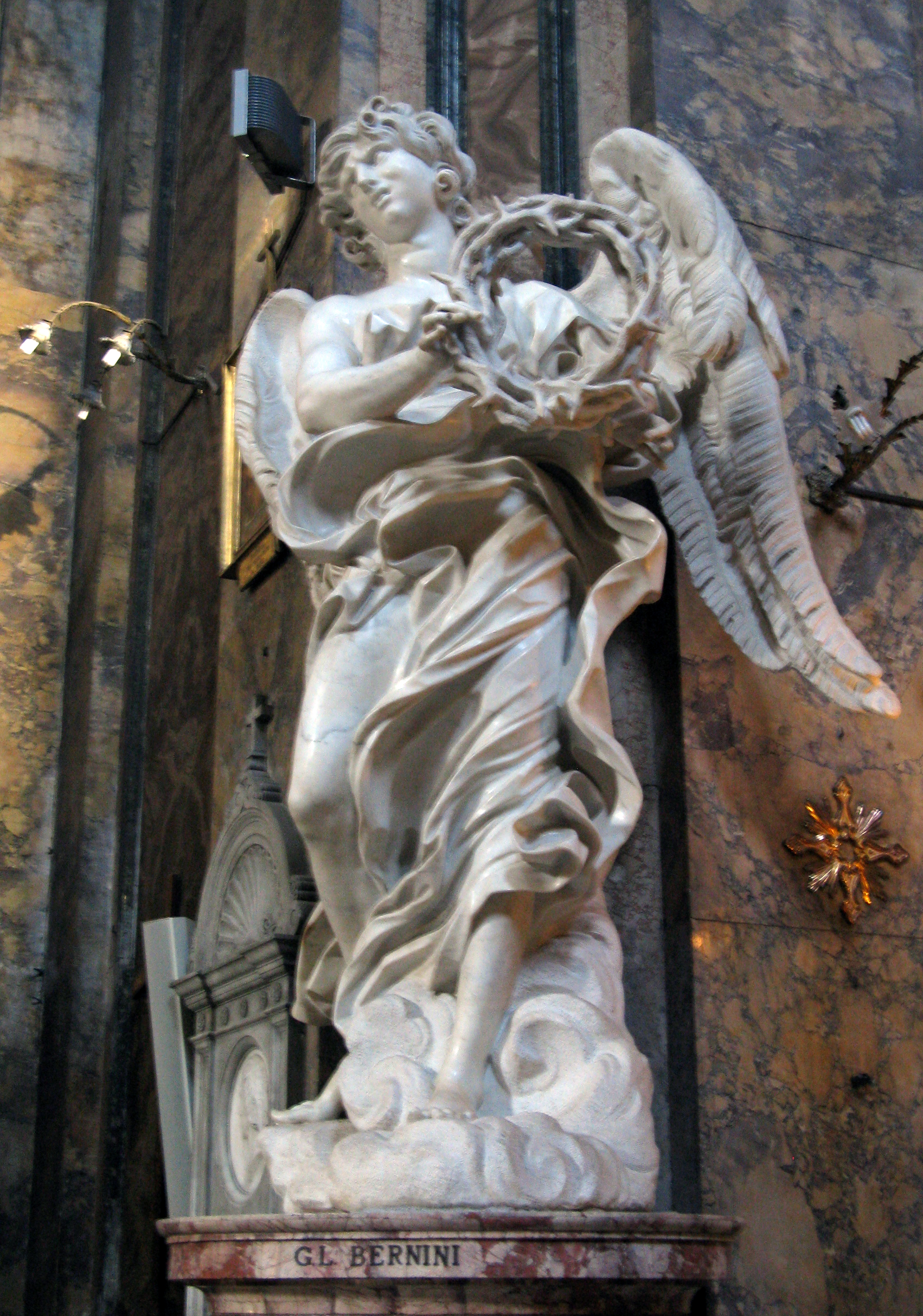 Angel with the Crown of Thorns by Gian Lorenzo Bernini, Sant'Andrea delle Fratte, Rome